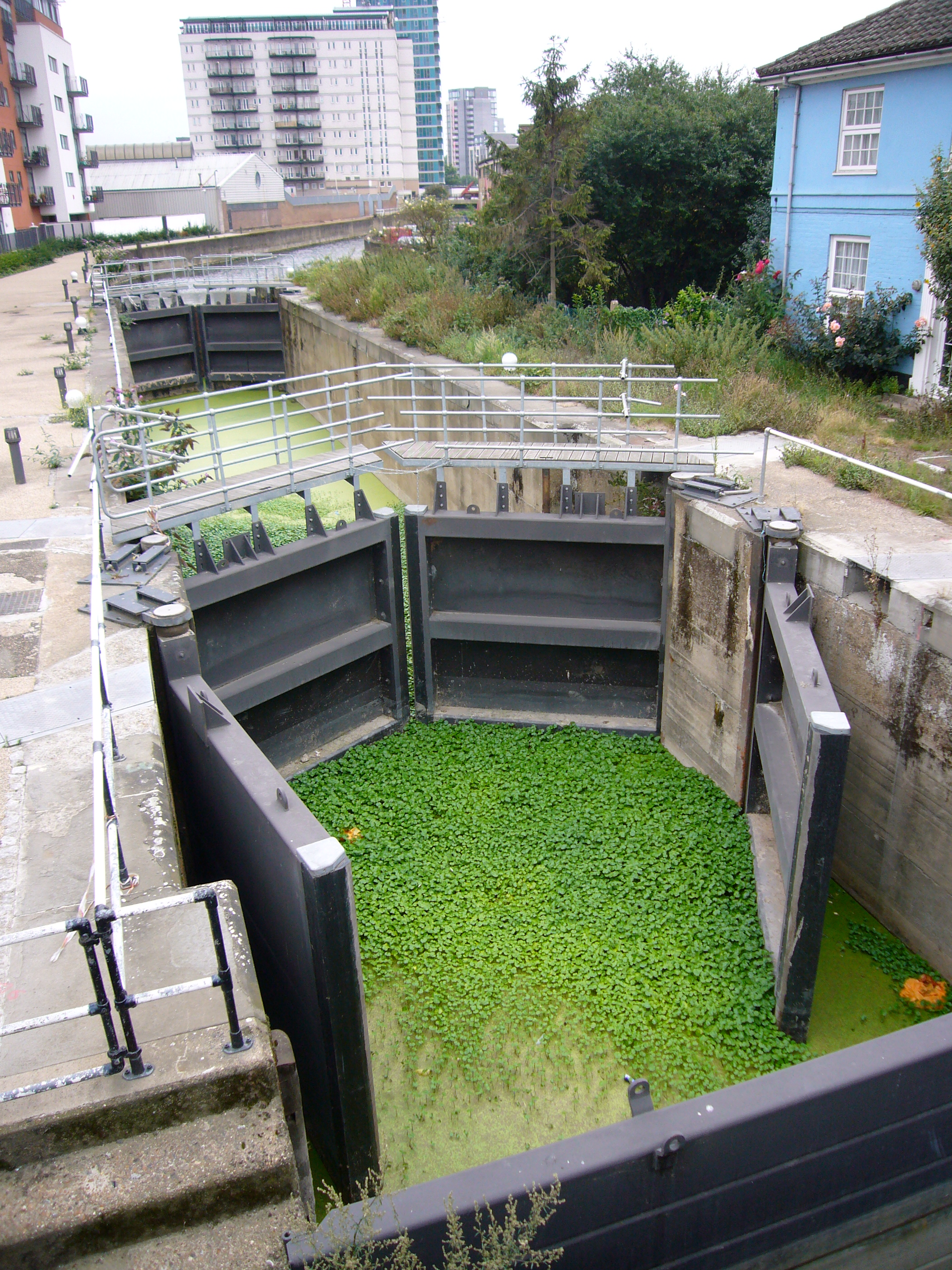 City Mill Lock, East London, August 2008.